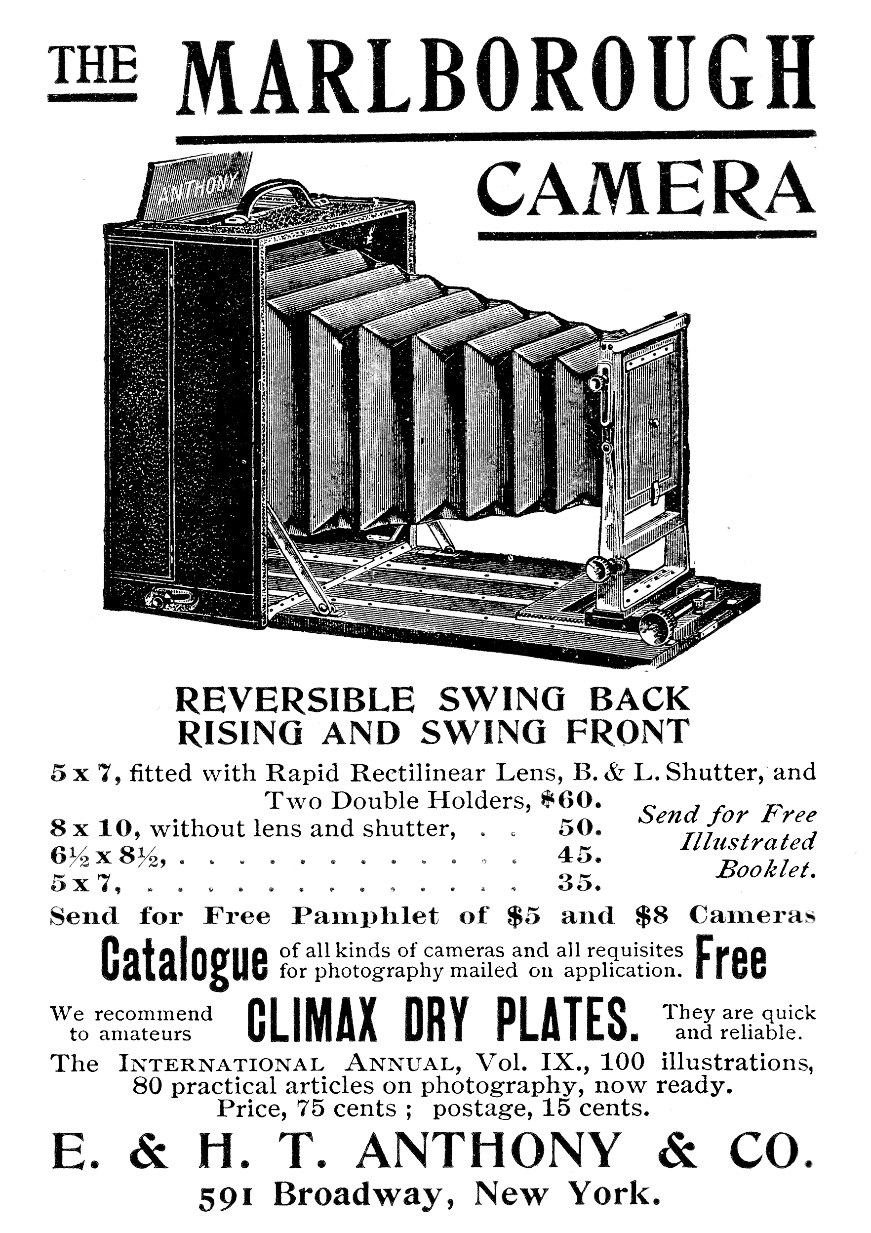 Advertisement for the "Marlborough" bellows camera manufactured and sold by the E. & H.T. Anthony Co., New York, NY 1897